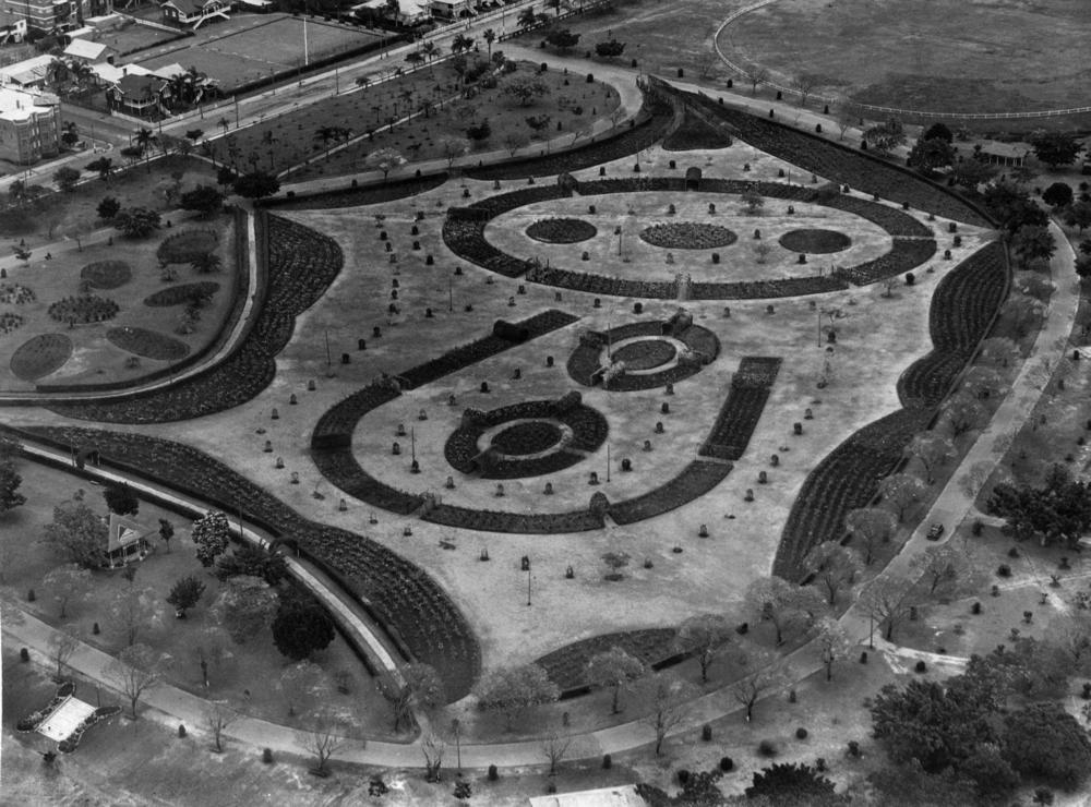 Creator: Unidentified Location: Brisbane, Queensland Description: Aerial view of the landscaped gardens of New Farm Park in New Farm, Brisbane, Queensland, 14 October 1937. View this image at the State Library of Queensland: Information about State Library of Queensland’s collection